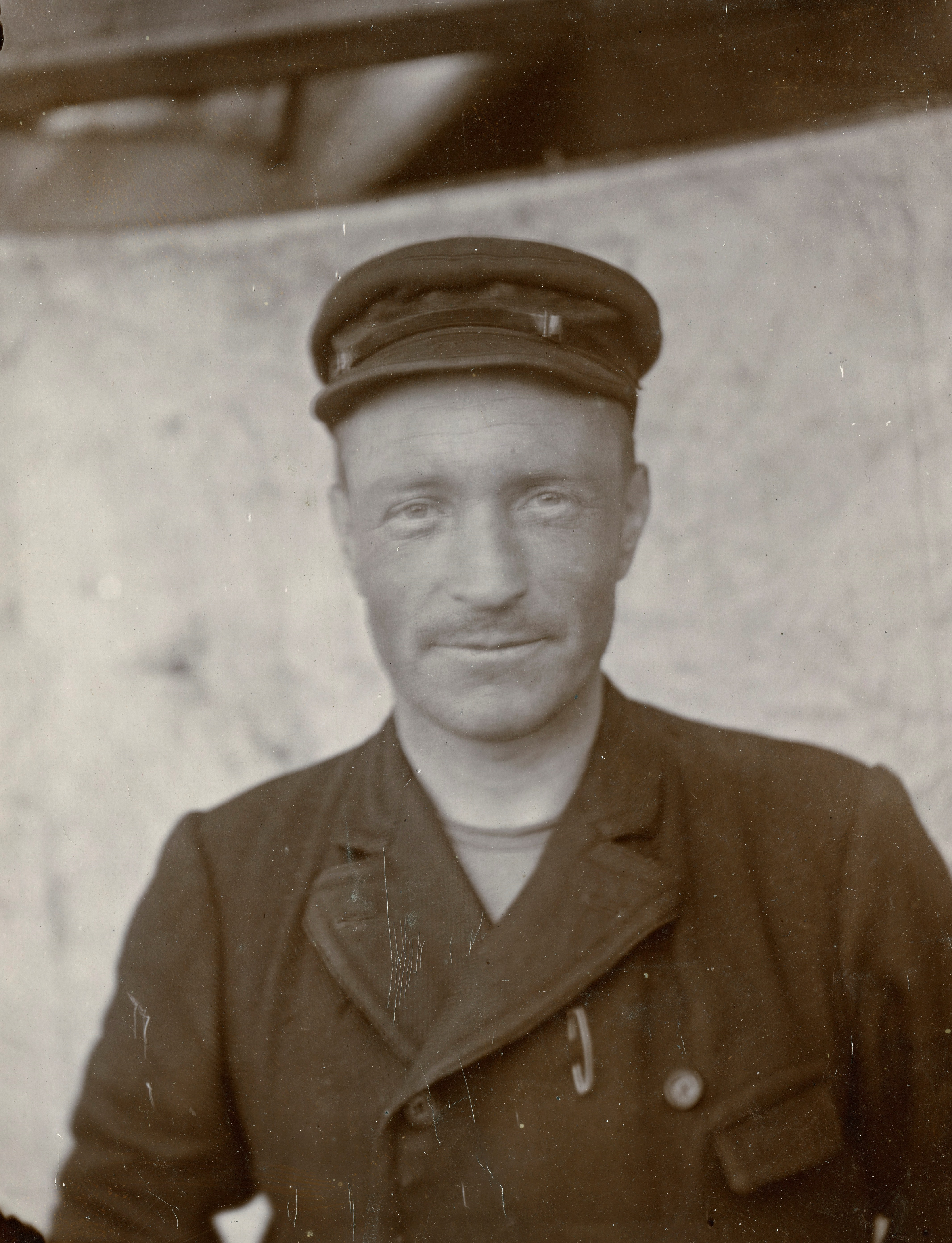 Henrik Greve Blessing, physician and botanist. One of the pictures from the expedition with arctic ship toward the North Pole in the period June 24, 1893 to August 13, 1896. According to the plan, the ship was to drift in the ice with the ocean current from the coast of Siberia across the North Pole to Greenland.